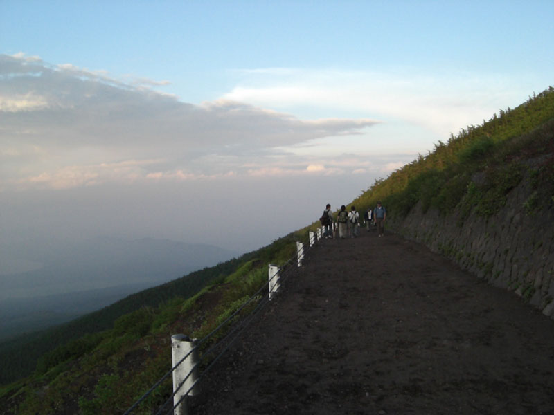 Yamanashi prefectural roads 702